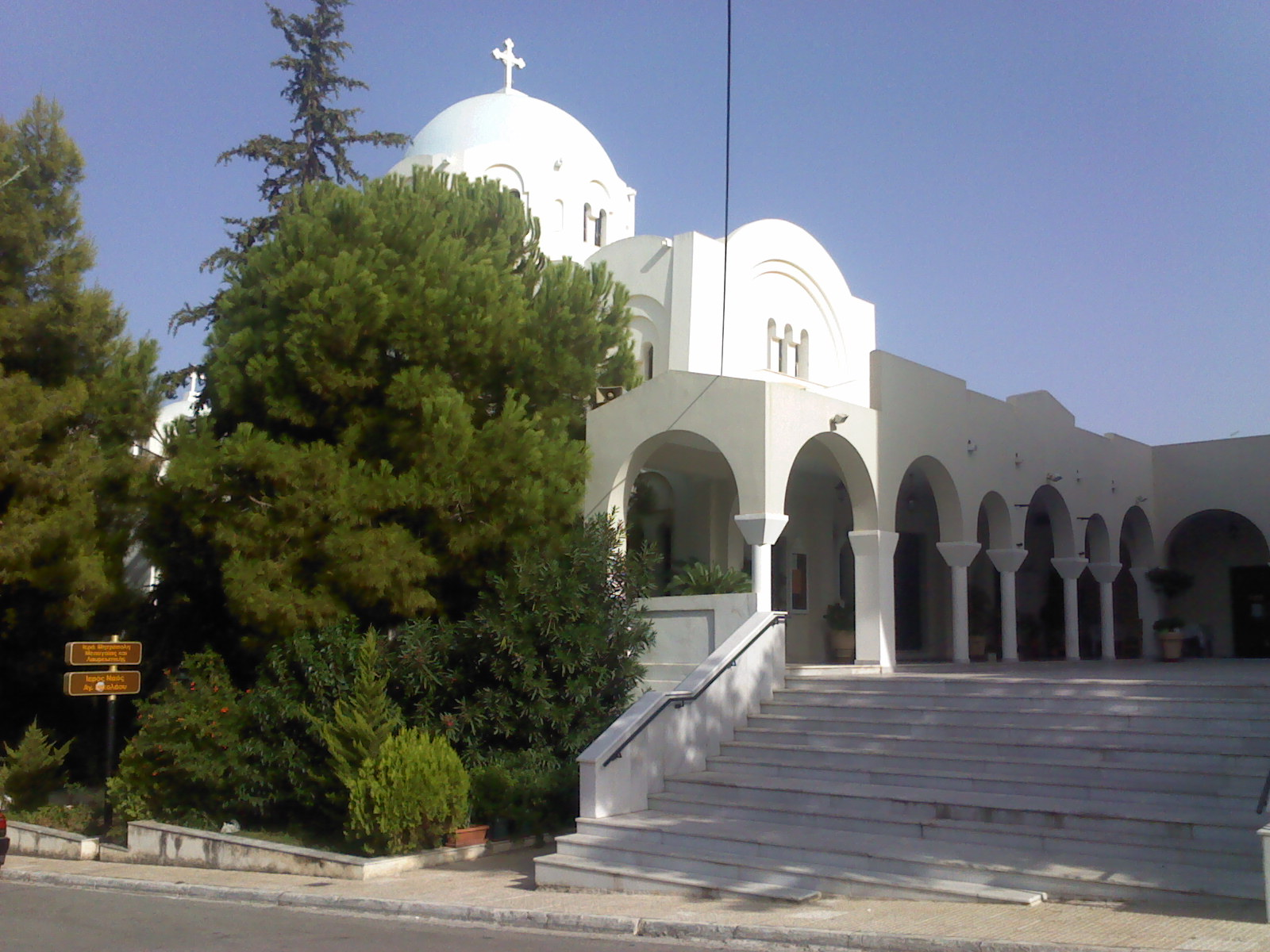 Agios Nikolaos Spata